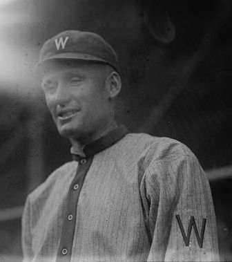 Walter Perry Johnson (1887 – 1946), American baseball player